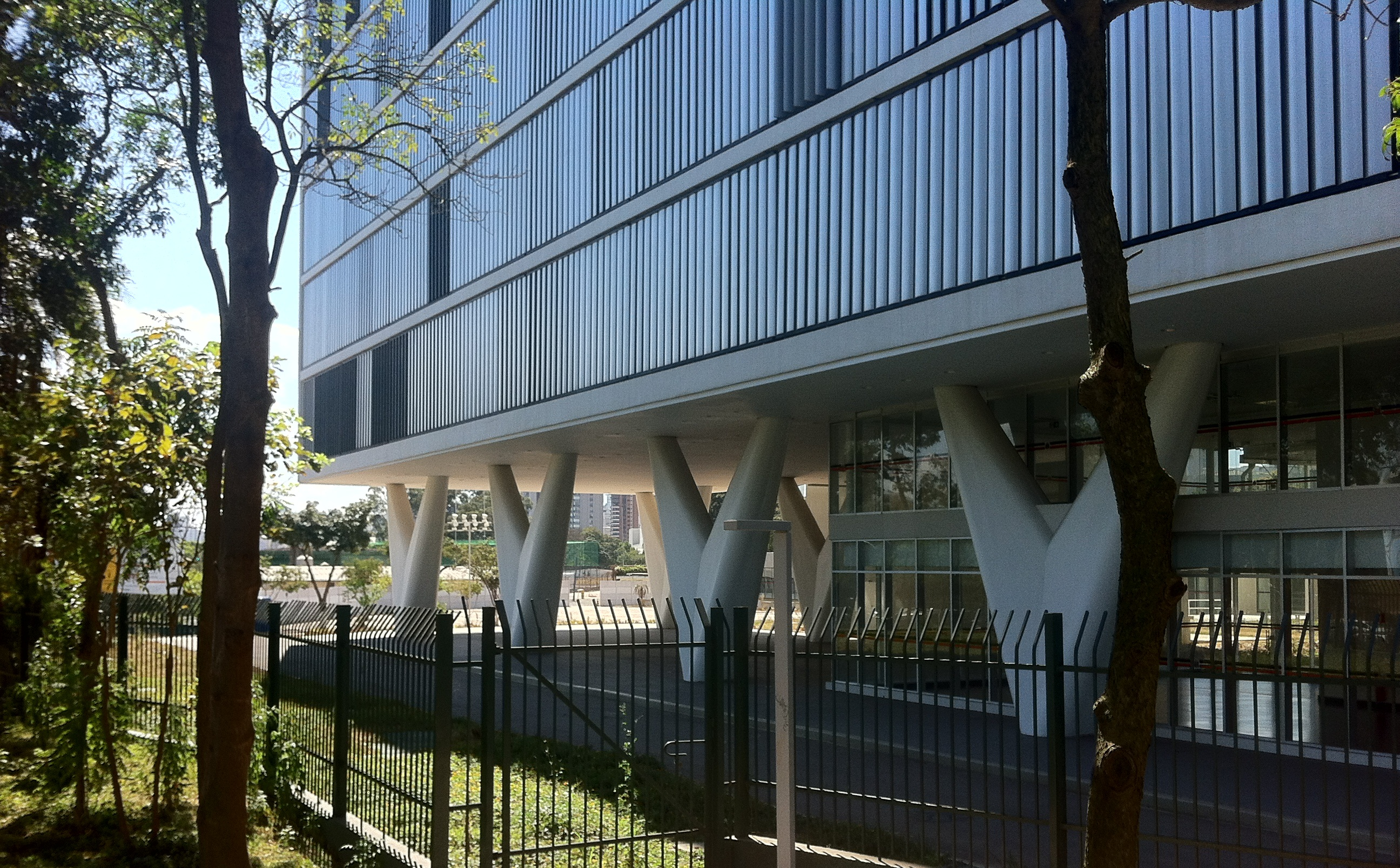 Antigo Palácio da Agricultura, no Parque do Ibirapuera. Atual MAC USP.